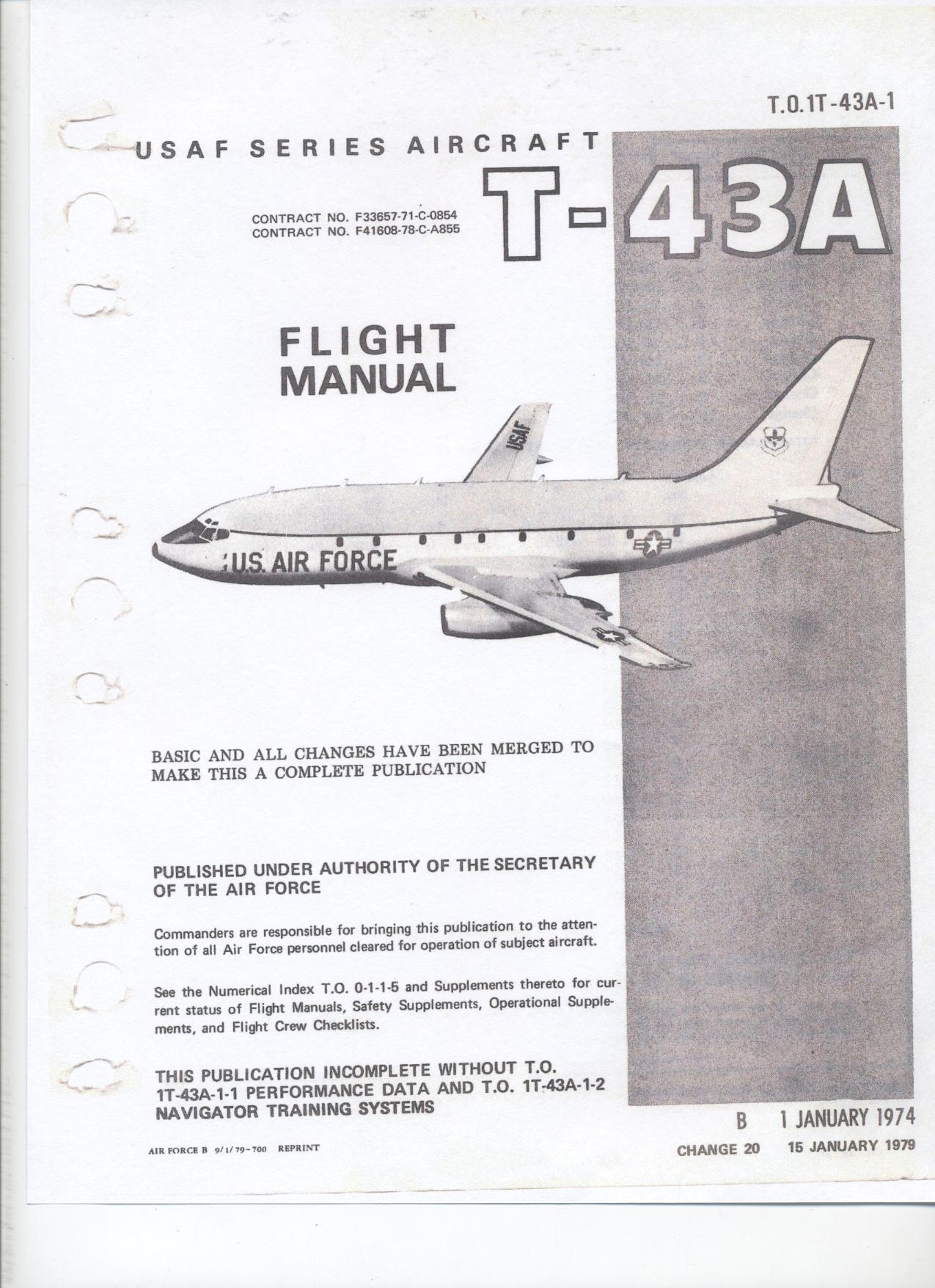 Photo copy scan of the Boeing T-43A Flight Manual cover